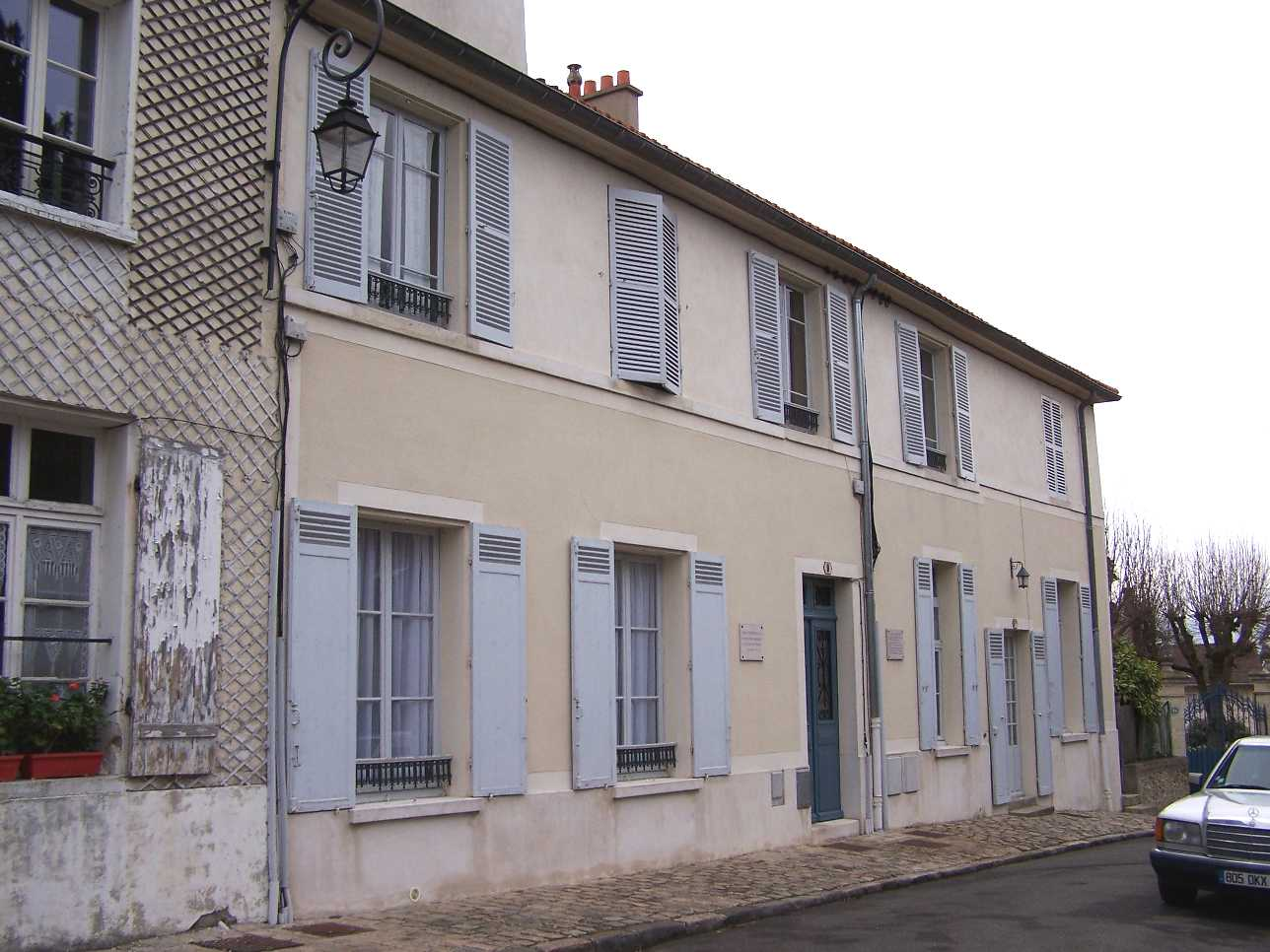 The house of Pierre-Auguste Renoir, 9 place Ernest Dreux, in the village of Voisins in Louveciennes (Yvelines, France) - A the number 9 bis, the next house, Kurt Weill found shelter from 1933 to 1935.